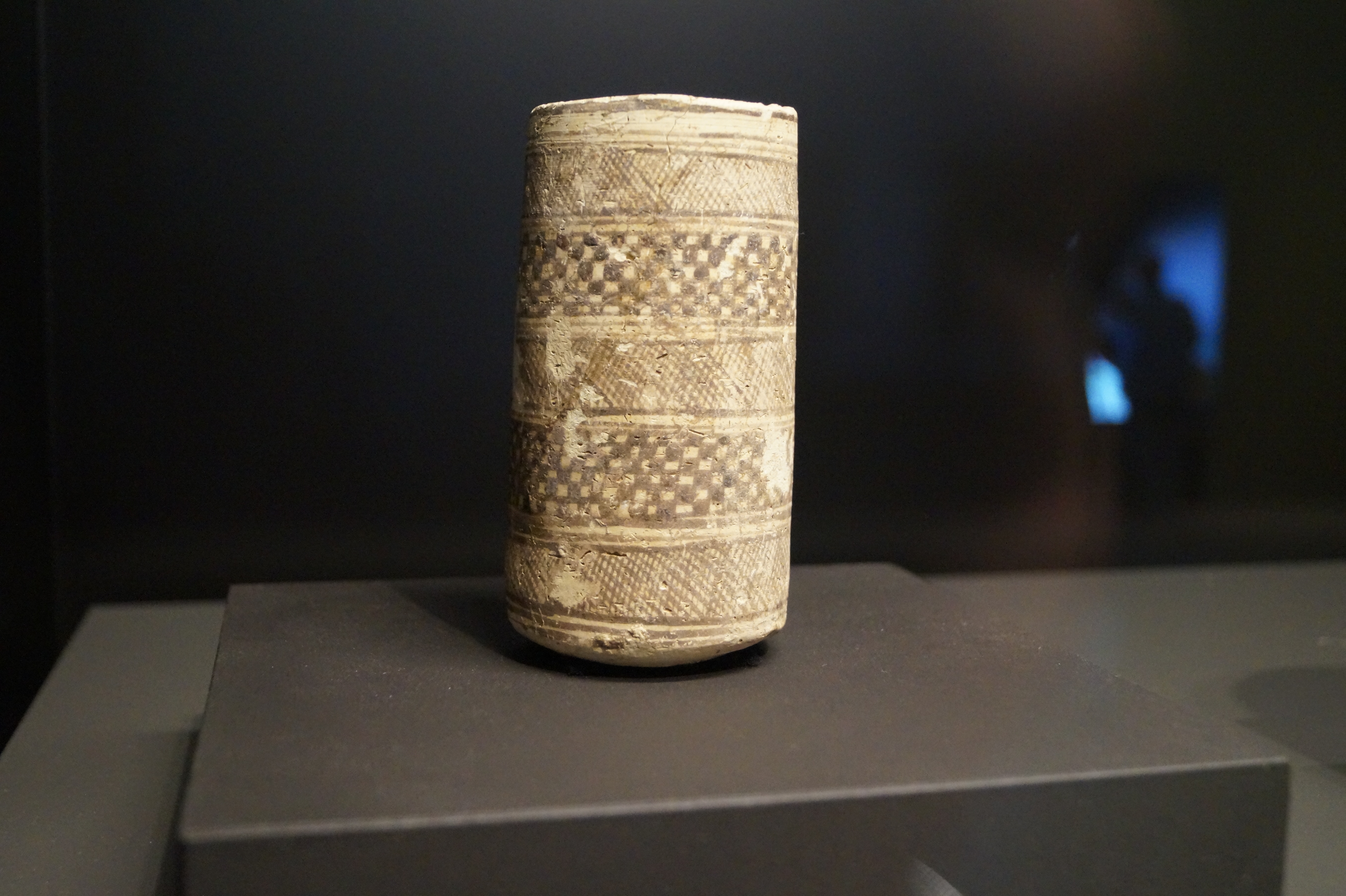 Ceramic from Iran, Susa. Tal-e Malyan, Kaftari-style around 2200-1600 BC